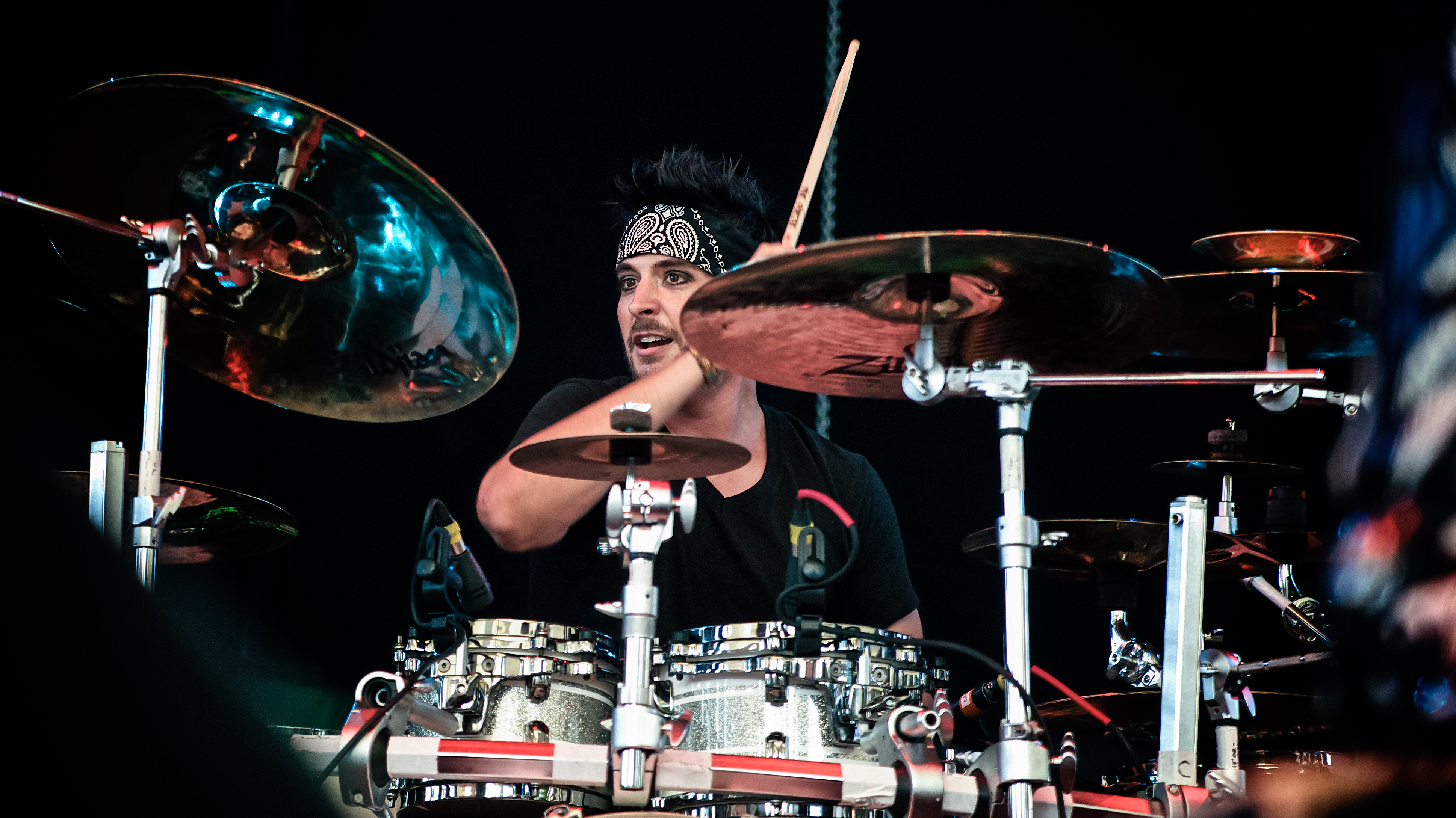 Shaun Foist, drummer for Breaking Benjamin